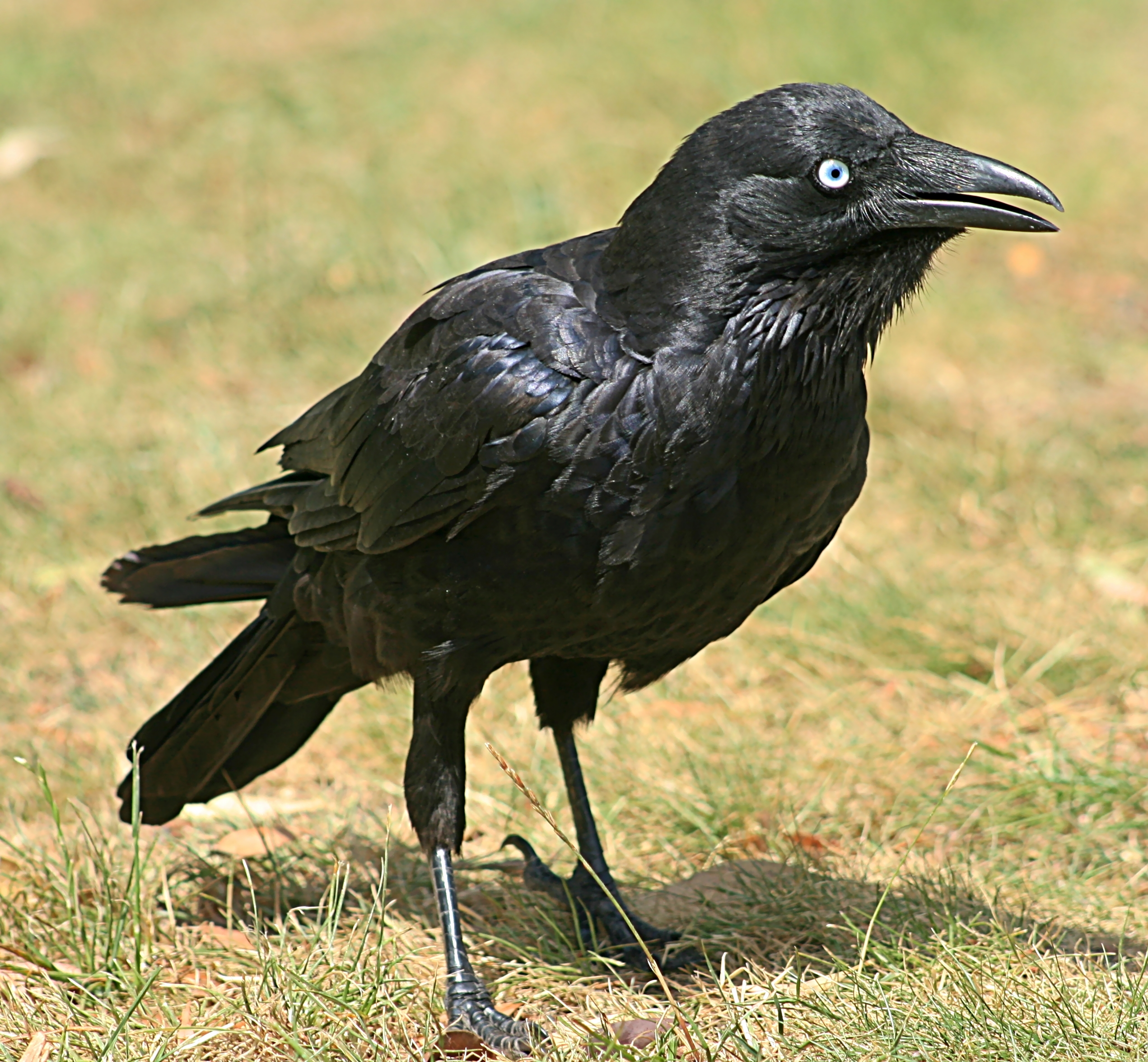 A Little Raven (Corvus mellori) in Thredbo, an alpine region of New South Wales, Australia.